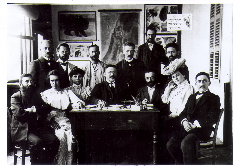 The first staff of the girl's school , Education in Israel